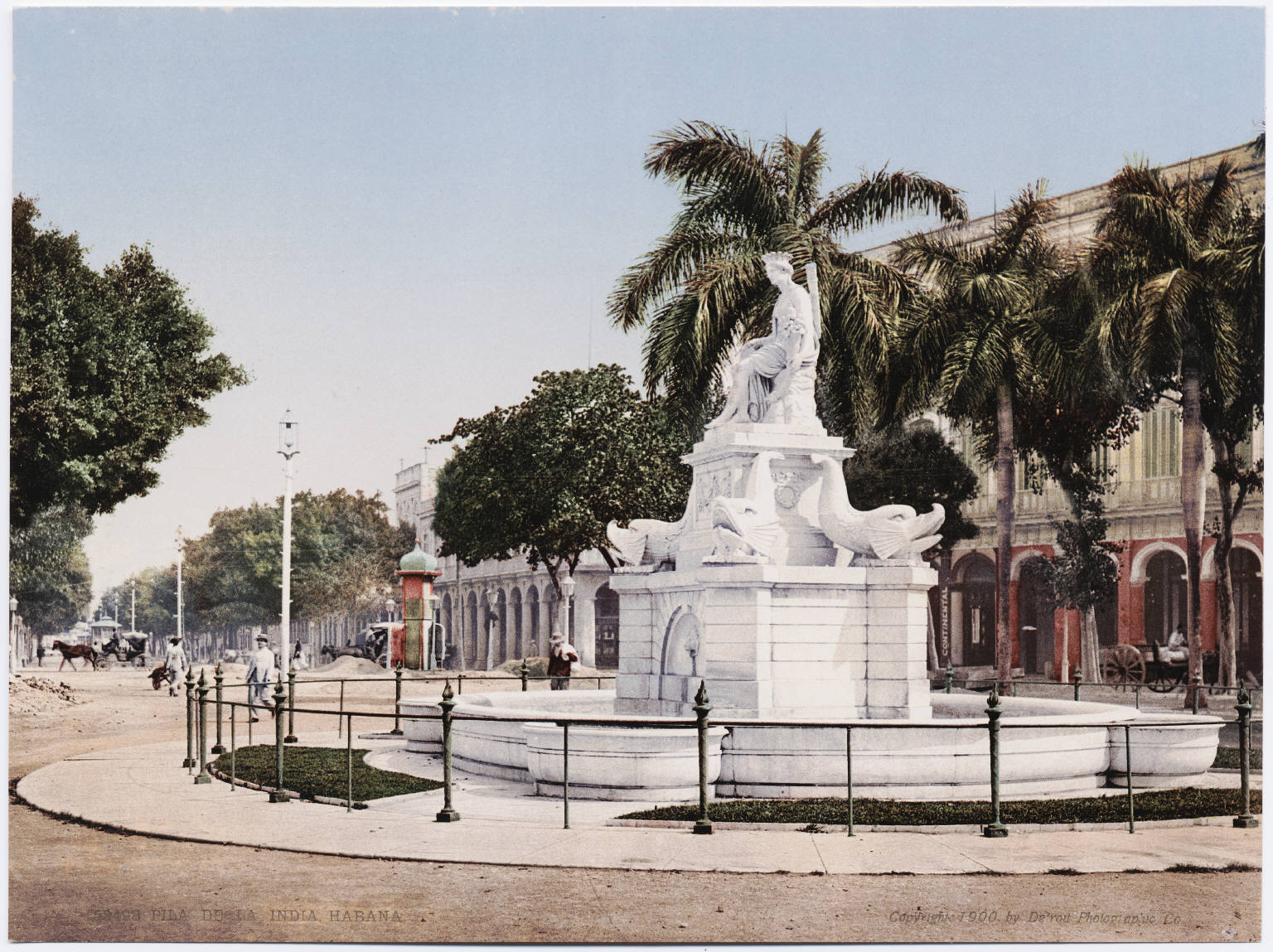 A photochrom postcard published by the Detroit Photographic Company.